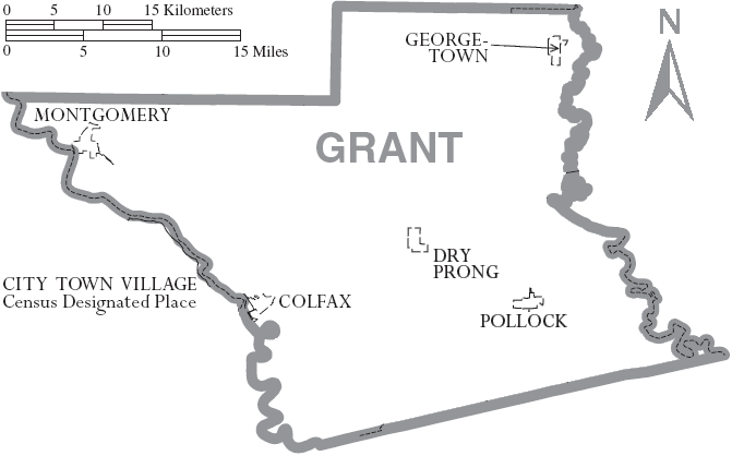 Map of Grant Parish, Louisiana, United States with municipal boundaries